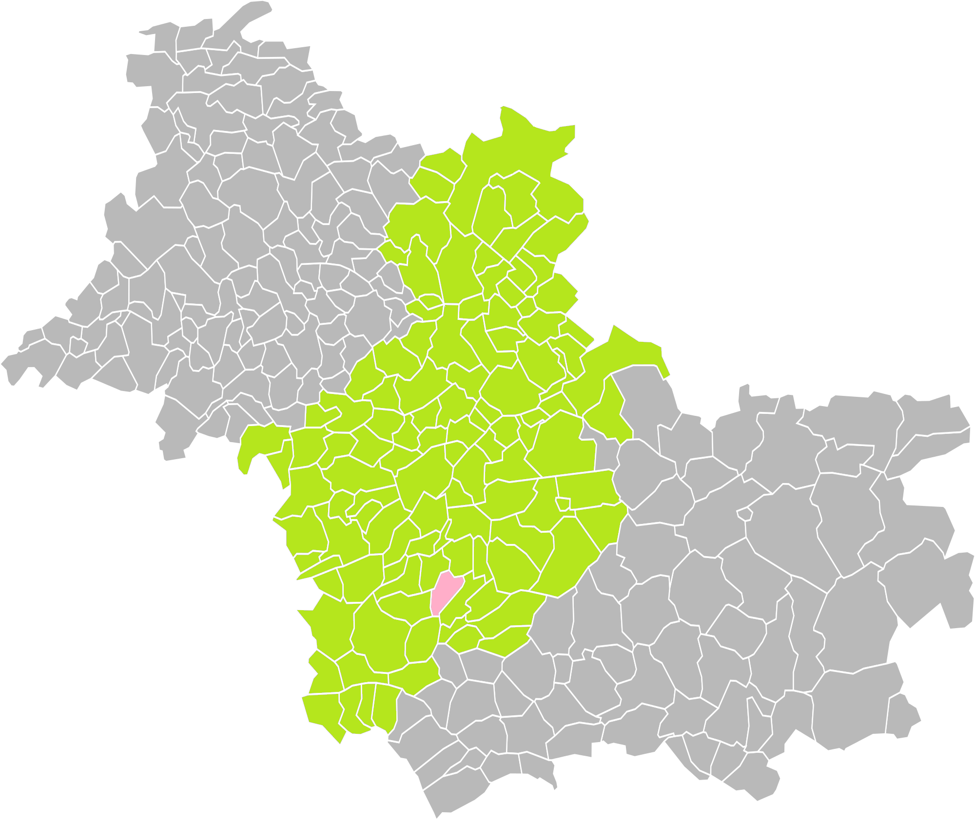 Location of the commune of Fougères-sur-Bièvre in the arrondissement of Blois (Loir-et-Cher)